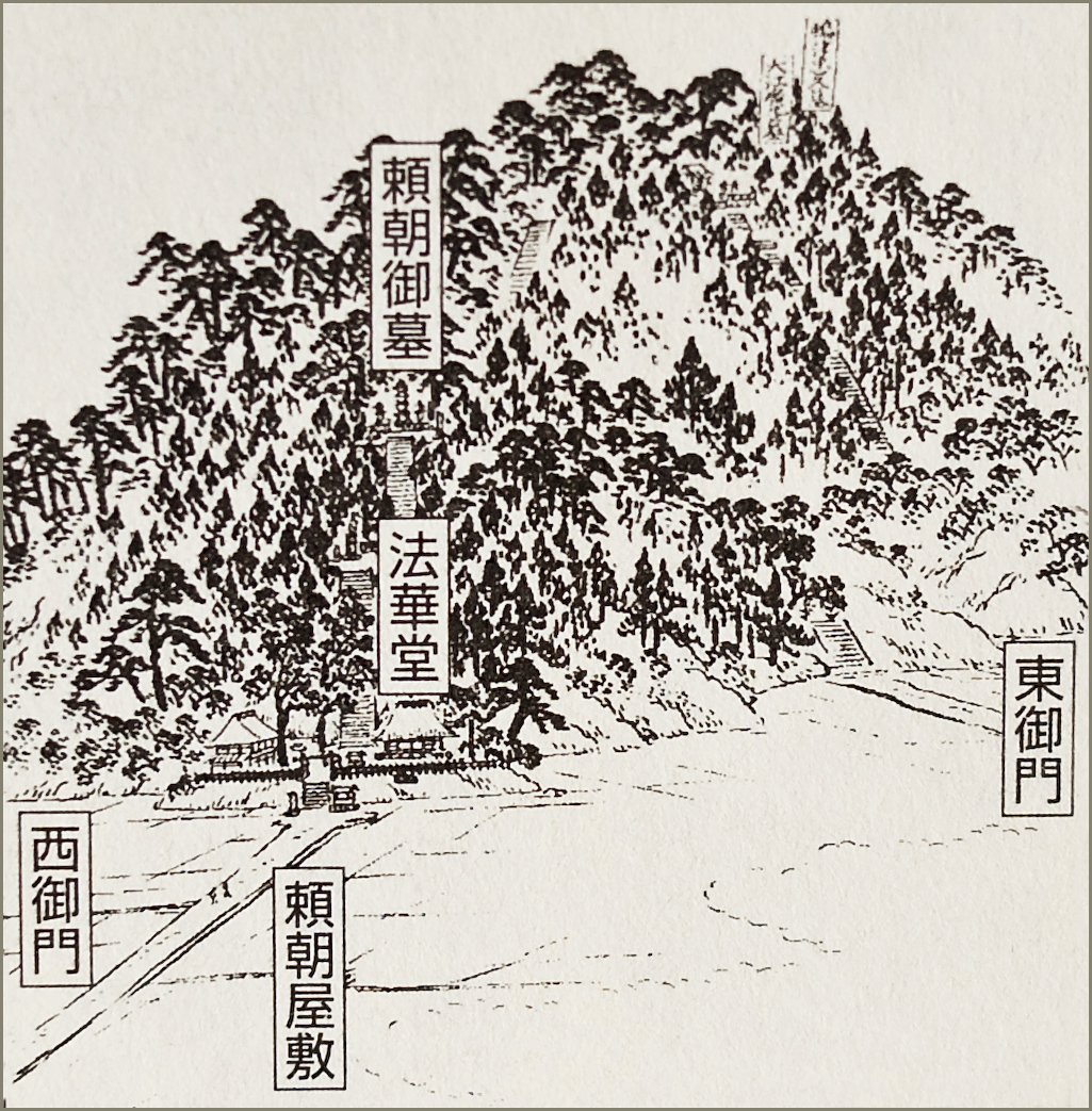 An Edo period (1603 to 1868) drawing of Minamoto no Yoritomo(源頼朝)'s grave and Hokkedō in Kamakura, Kanagaawa.